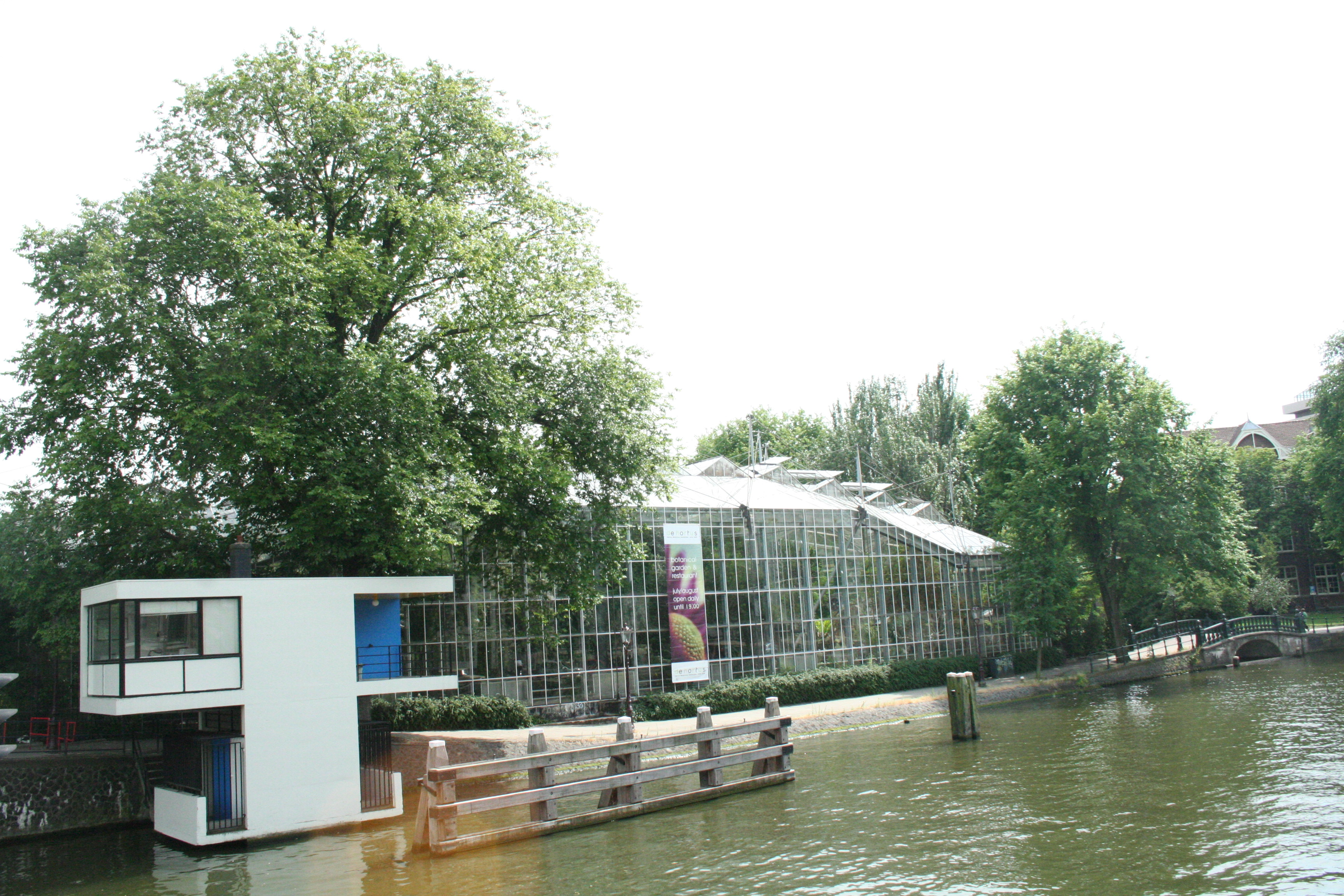 The Hortus Botanicus Amsterdam entrance with "brugwachtershuisje" Photo by Pejman Akbarzadeh Persian Dutch Network